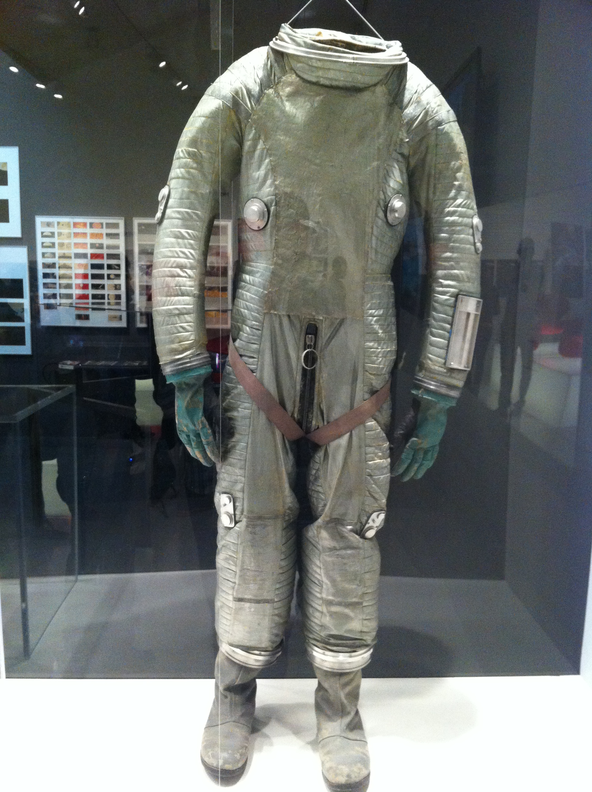 Stanley Kubrick exhibit at Los Angeles County Museum of Art.